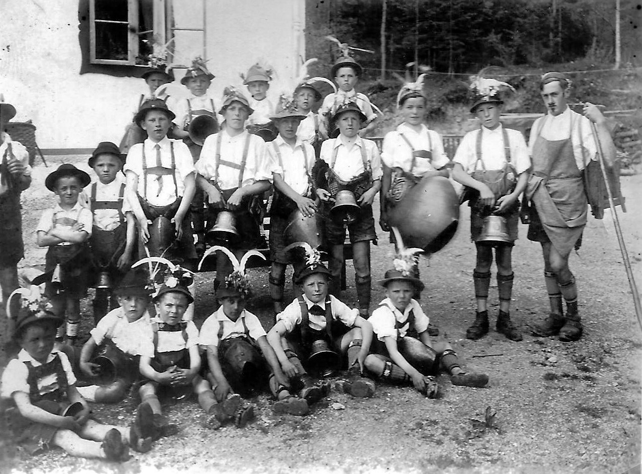 Young boys practising the tradition of "Grasausläuten" in Terfens (Tyrol, Austria) in the 1930s